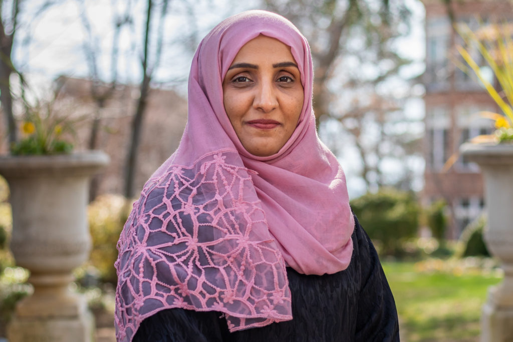 Chosen as an International Women of Courage in March 2020. Awards presented on 4 March 2020. Yasmin Al Qadhi